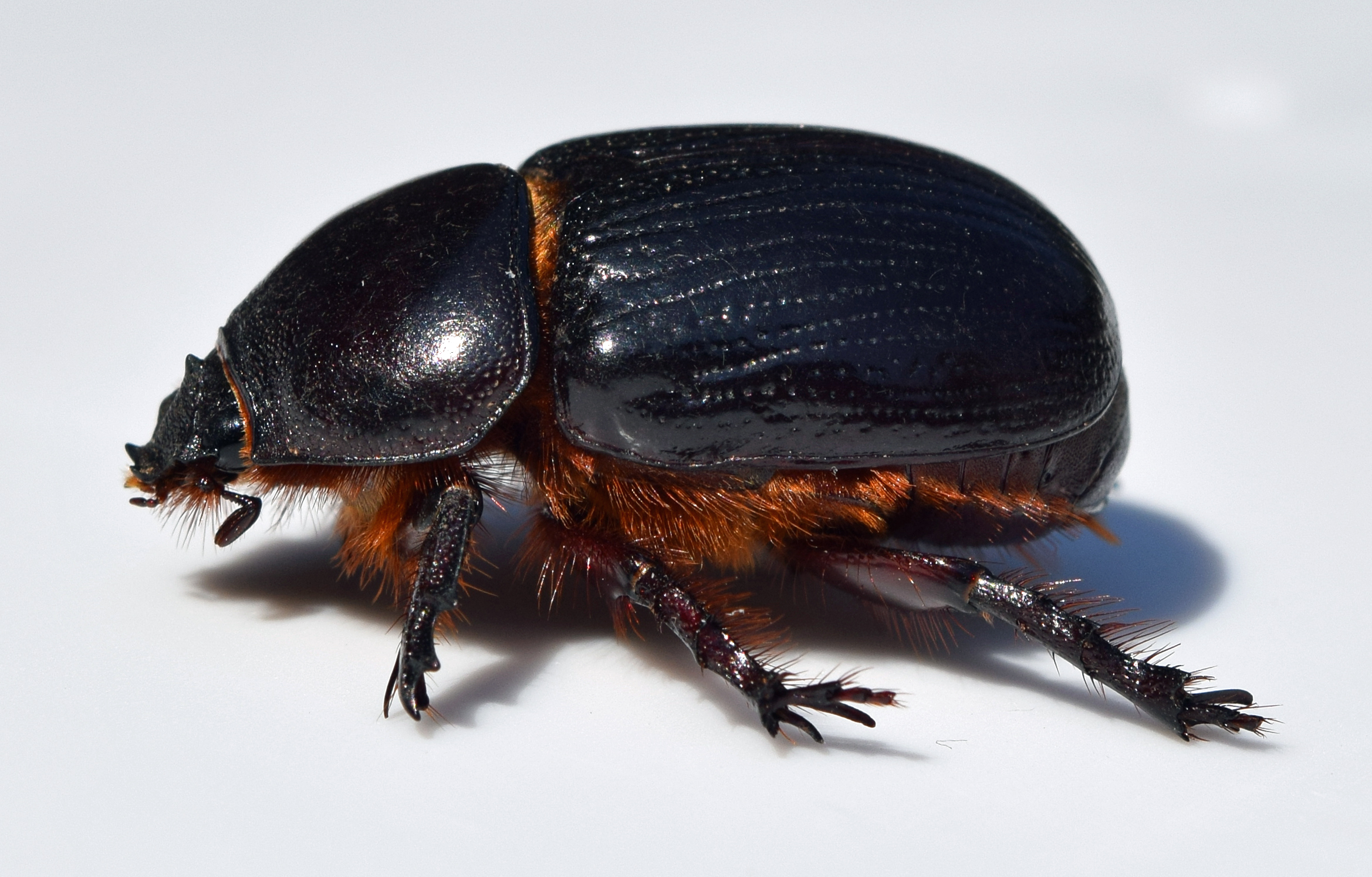 An adult female Xyloryctes jamaicensis (American rhinoceros beetle) at the University of Mississippi Field Station.